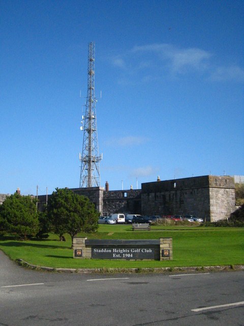 Communications mast at Staddon Fort Staddon Fort is part of the Plymouth Eastern Defences and is still partly used by the Navy.